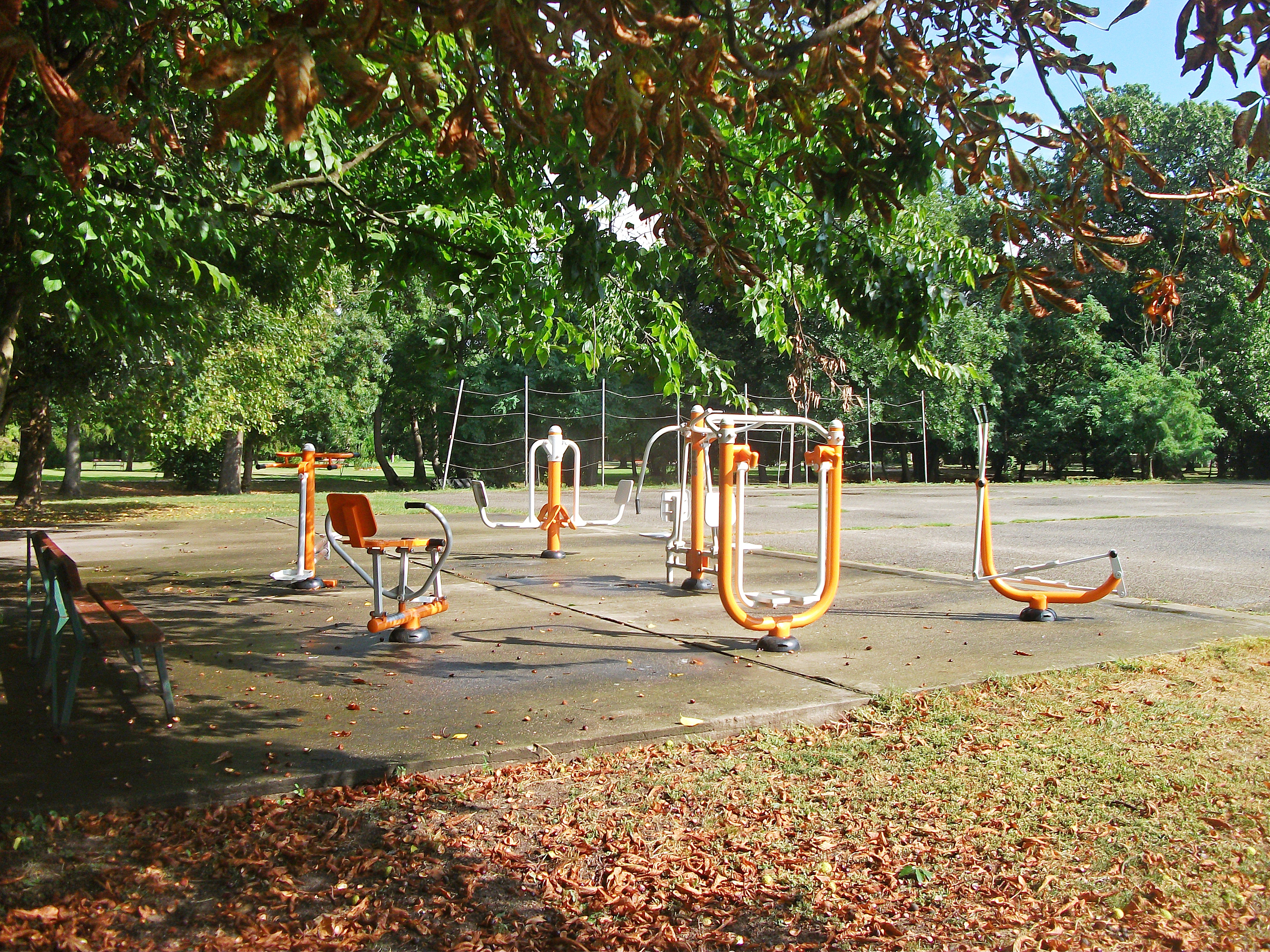 Fitness trail in Zichyújfalu, Hungary.